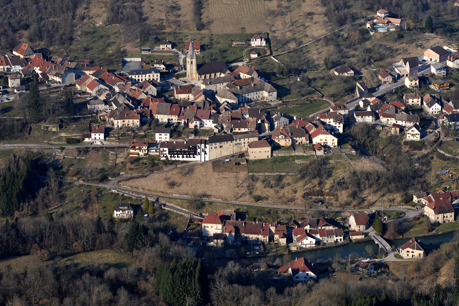 Vue to Mouthier-Haute-Pierre from viewpoint near Renédale; Franche-Comté, France.